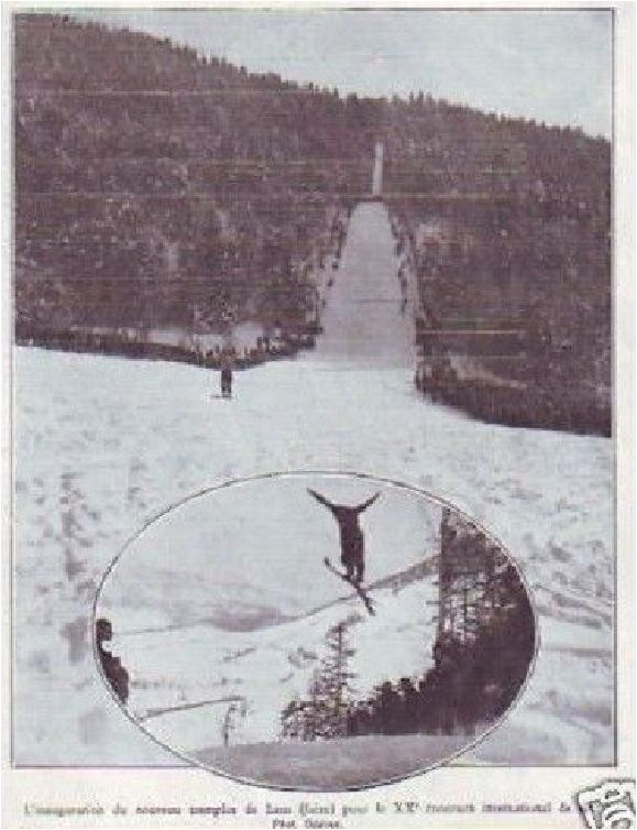 In the background, a snow field accesses to the mountain. In the middle of the forest there is a straight gap. Superimposes a skier jumping arms spread.